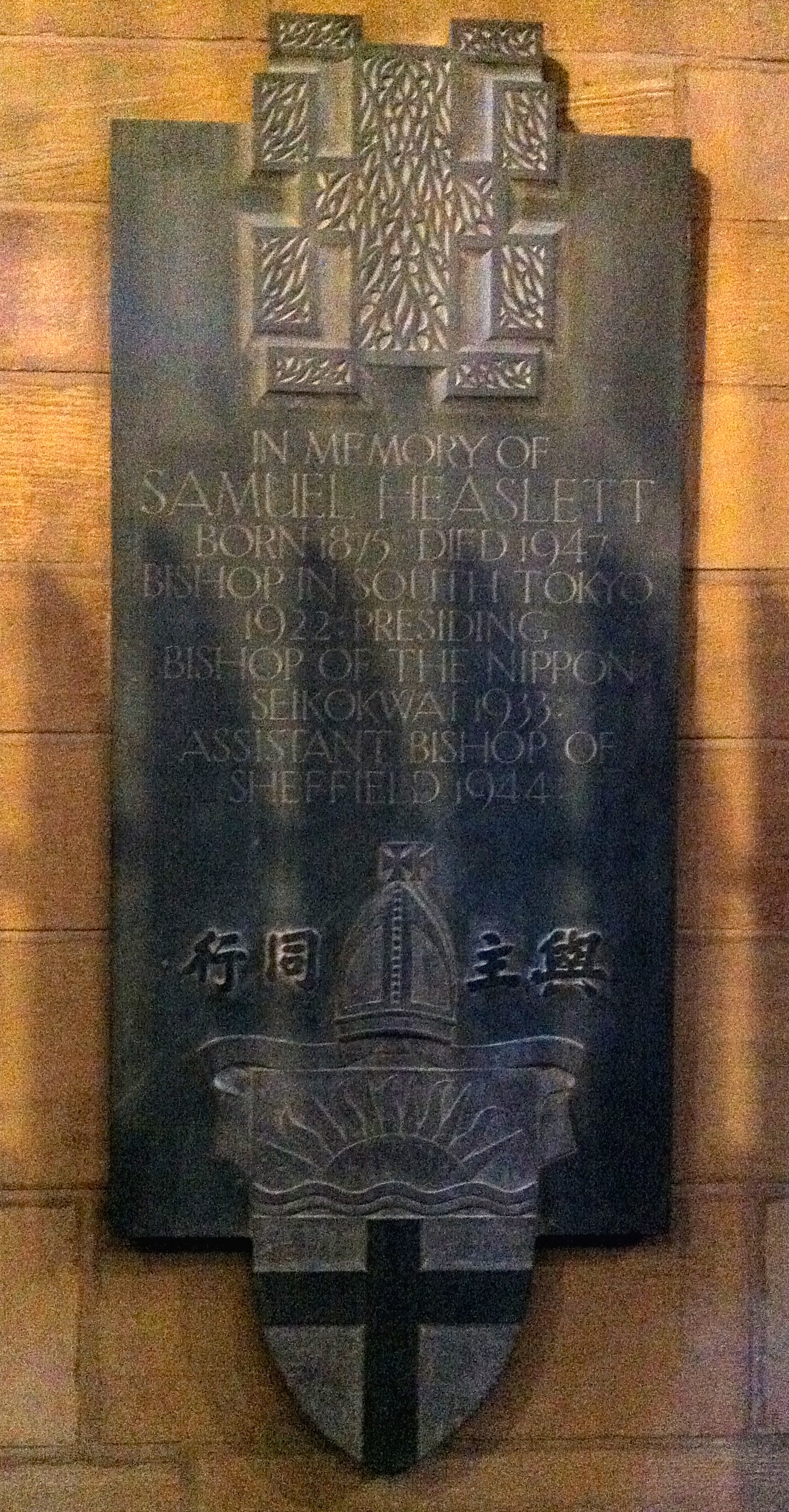 In memory of Samuel Heaslett, Born 1875, Died 1947, Bishop in South Tokyo 1922, Presiding Bishop of the Nippon Seikokwai 1933, Assistant Bishop of Sheffield 1944.